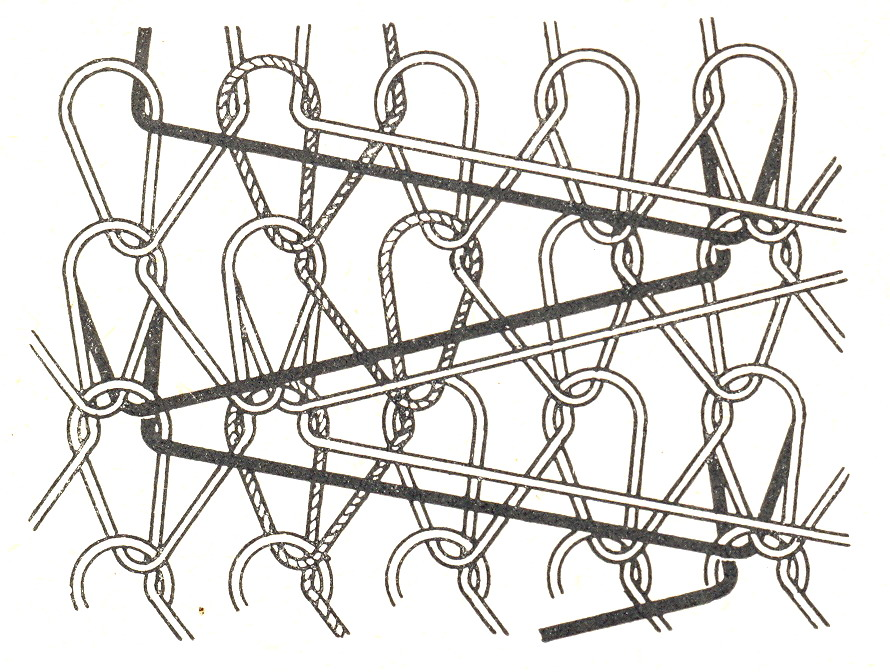 Warp knitted 4-needle satin loop structure